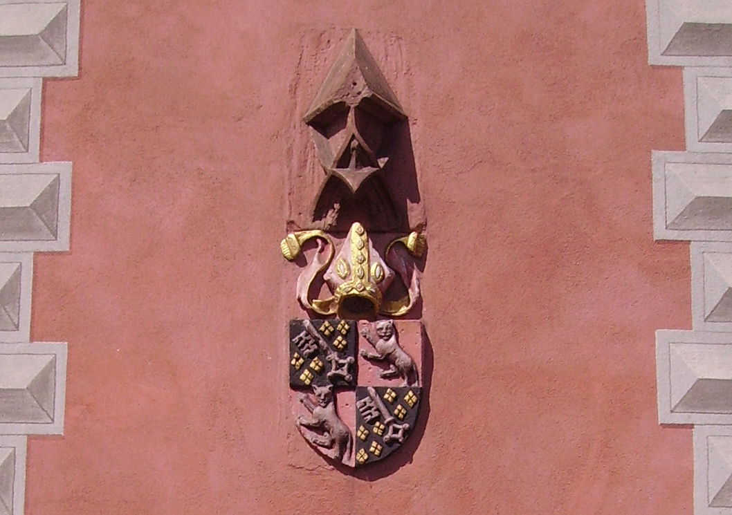 Ladenburg, Germany